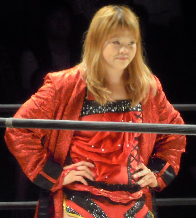 Japanese professional wrestler,Nanae Takahashi.May 8 2011 STARDOM Shin-Kiba 1st Ring.